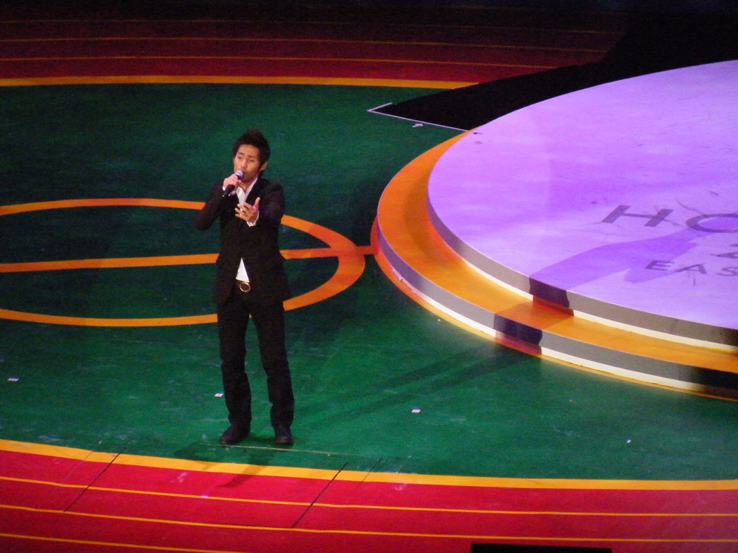 2009 East Asian Games Closing Ceremony - Kousuke Atari(中孝介)